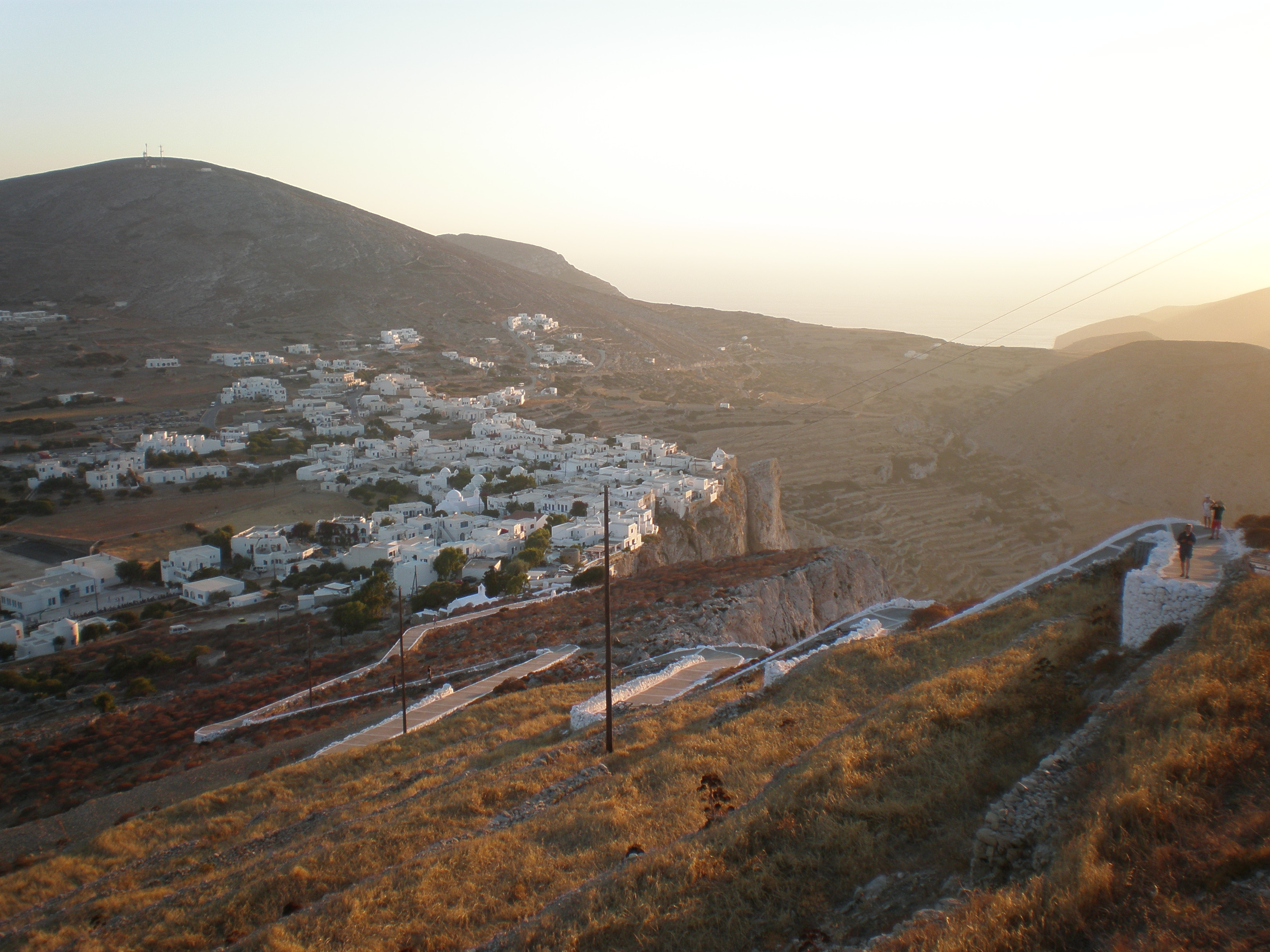 View of Chora, as seen from the church of Panagia